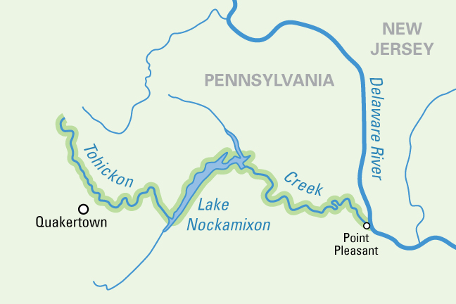 Projection: State Plane Pennsylvania South Source: Census TIGER 2015